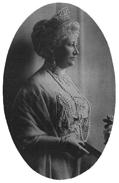 Web source [1] Original source "Current History of the War v.I (December 1914 - March 1915). New York: New York Times Company."